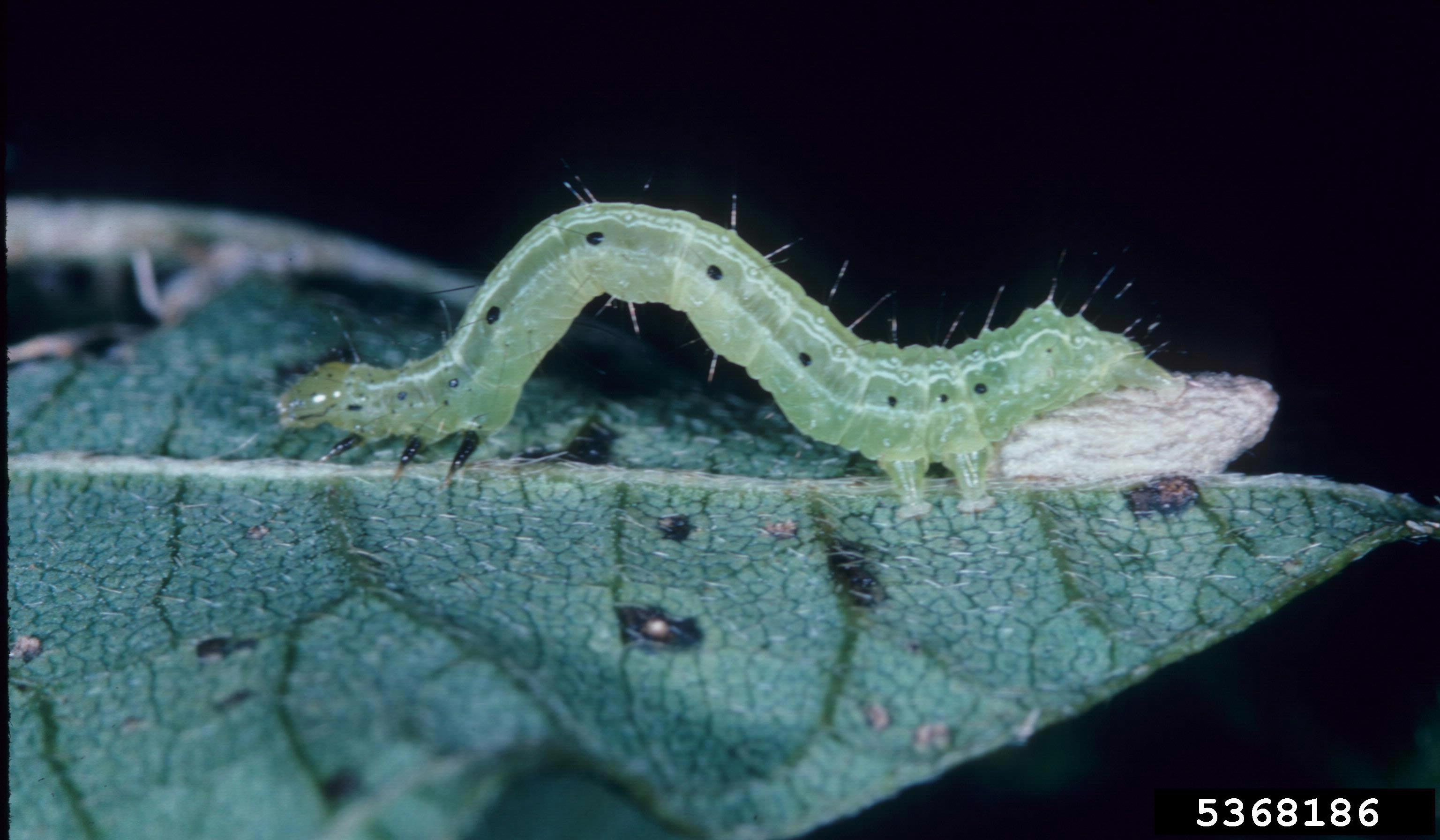 A Glyptapanteles phytometrae larva on a tomato looper (Chrysodeixis chalcites) in a field in Indonesia